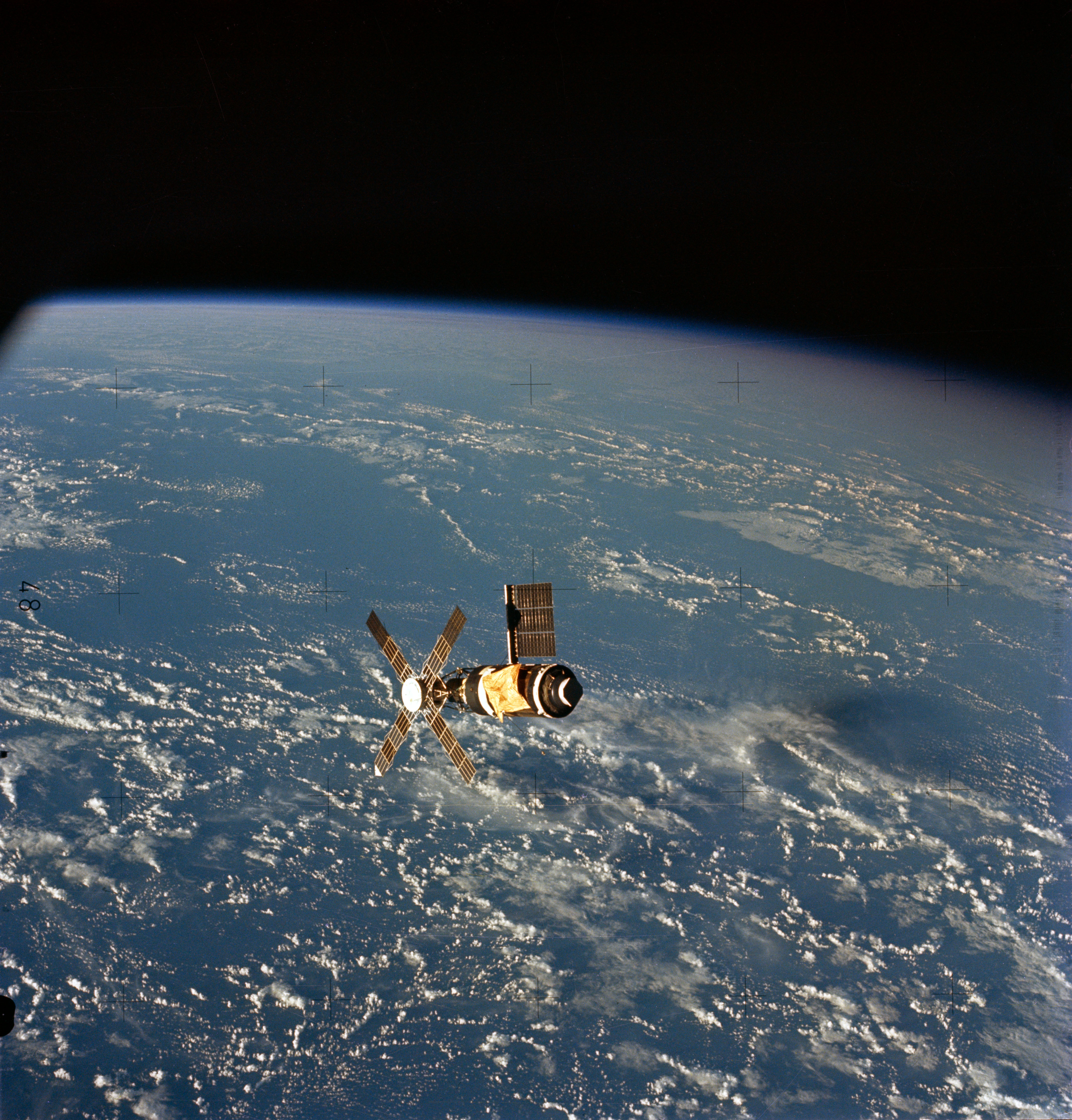 View of Skylab 2 from the Skylab Command/Service Module during the final flyaround inspection. Damage can be seen on both a solar panel and the parasol solar shield.